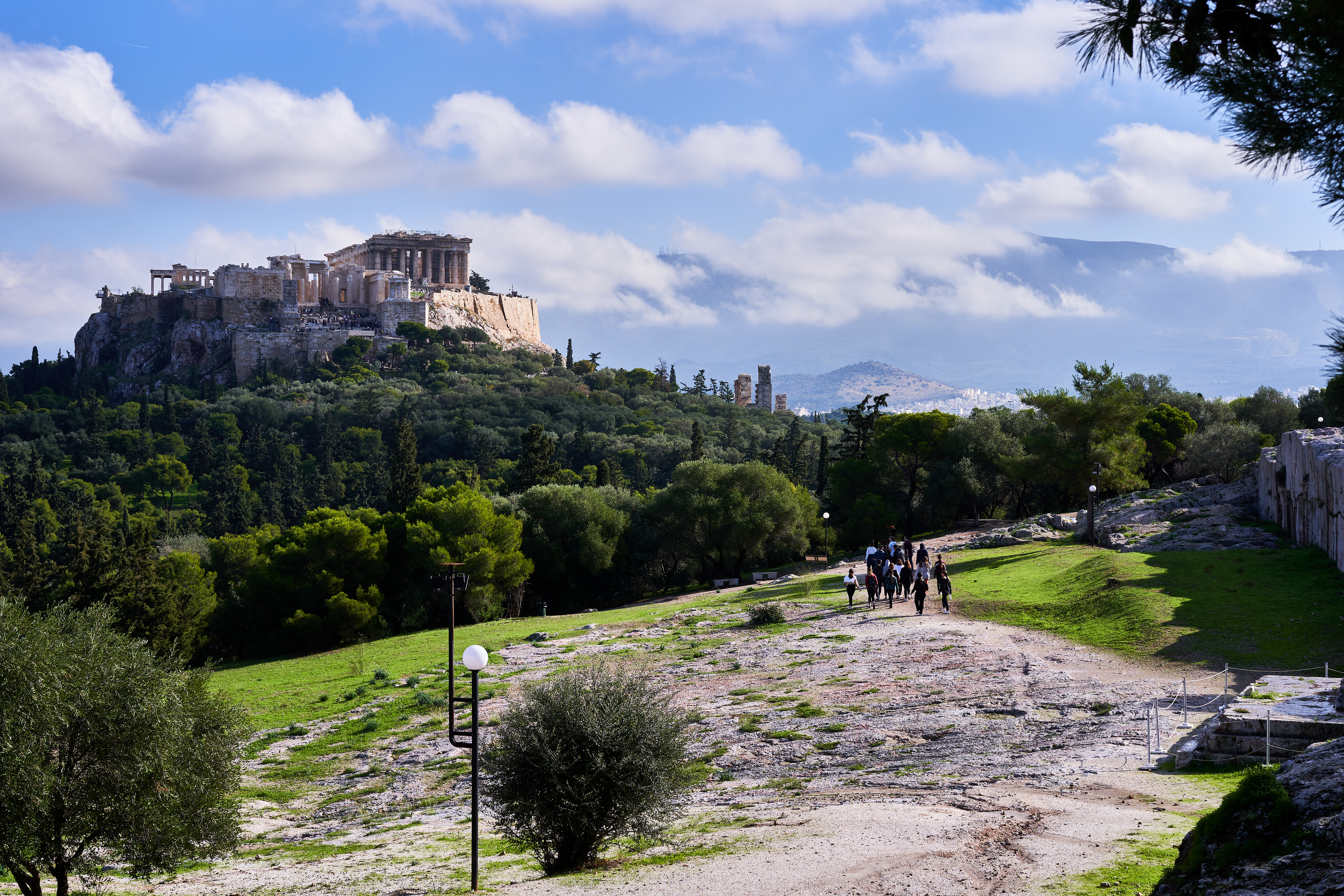 The Pnyx plateau and the Acropolis on November 25, 2019.